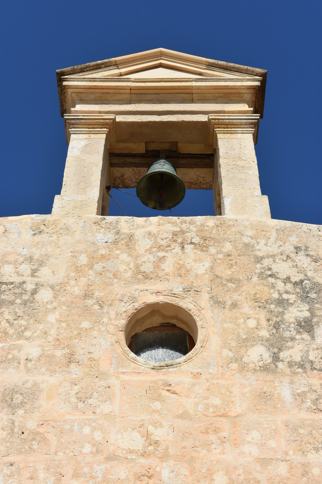 St Martin Church, Baħrija